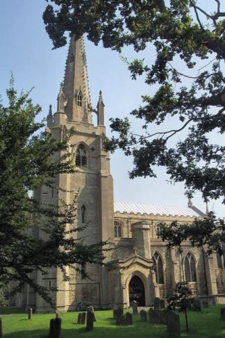 SS Mary & Nicolas, Spalding.